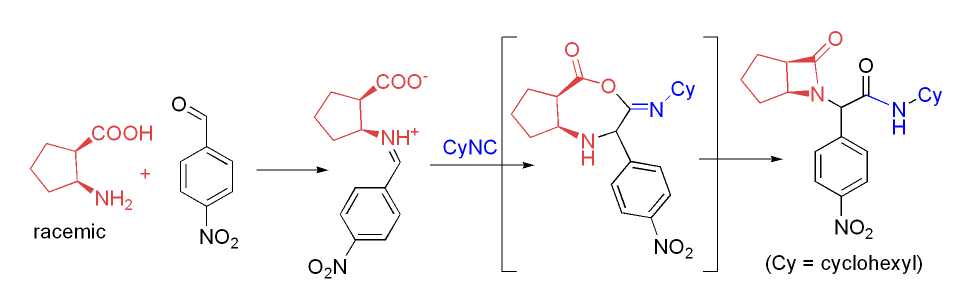 Ugi reaction used to form a Beta-lactams. , See [10.1021/ja062509l DOI].